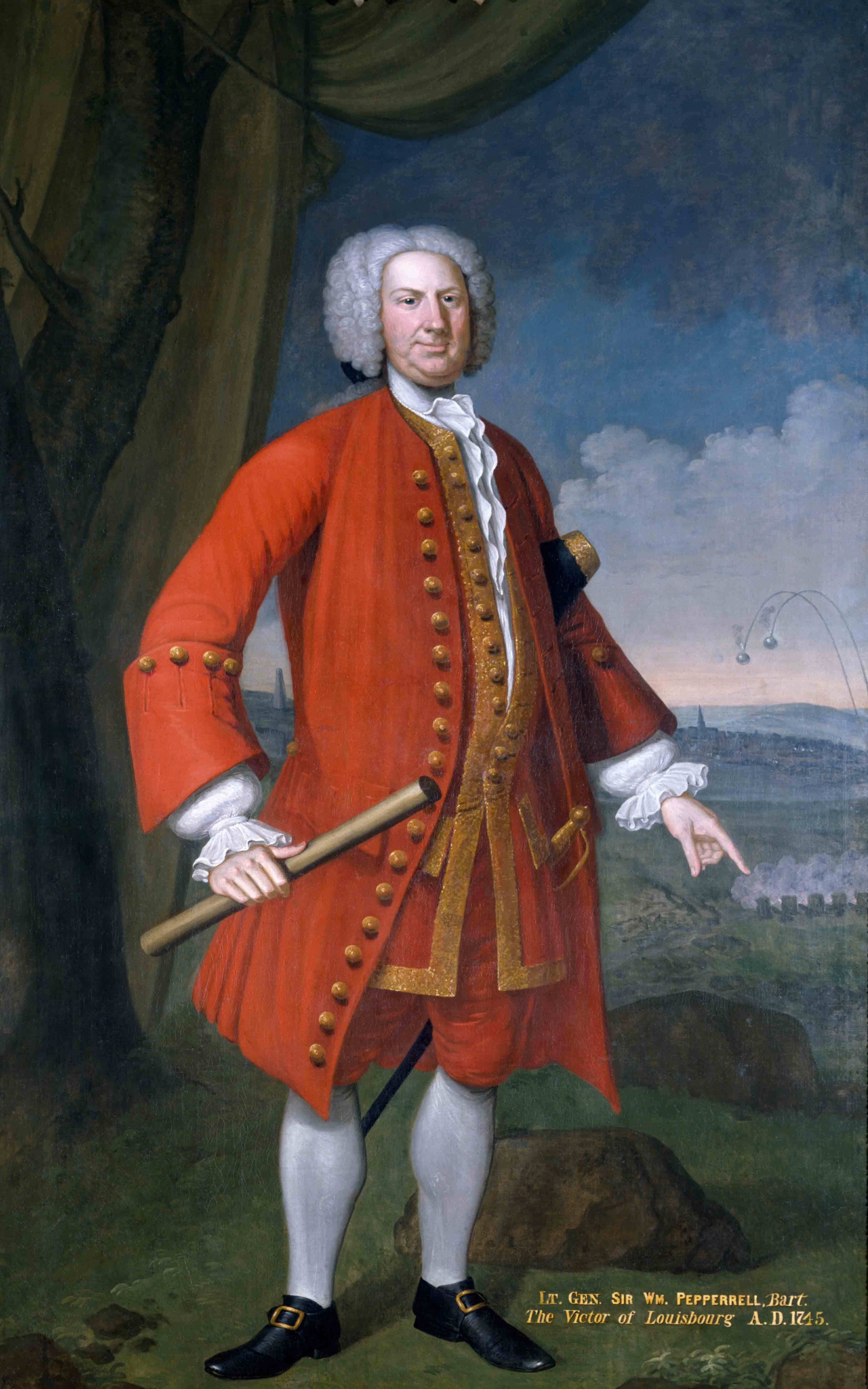 He is widely remembered for organizing, financing, and leading the expedition that captured the French garrison at the Fortress of Louisbourg during King George's War. During his day Pepperrell was called "the hero of Louisburg," a victory celebrated in the name of Louisburg Square in Boston's Beacon Hill neighborhood.